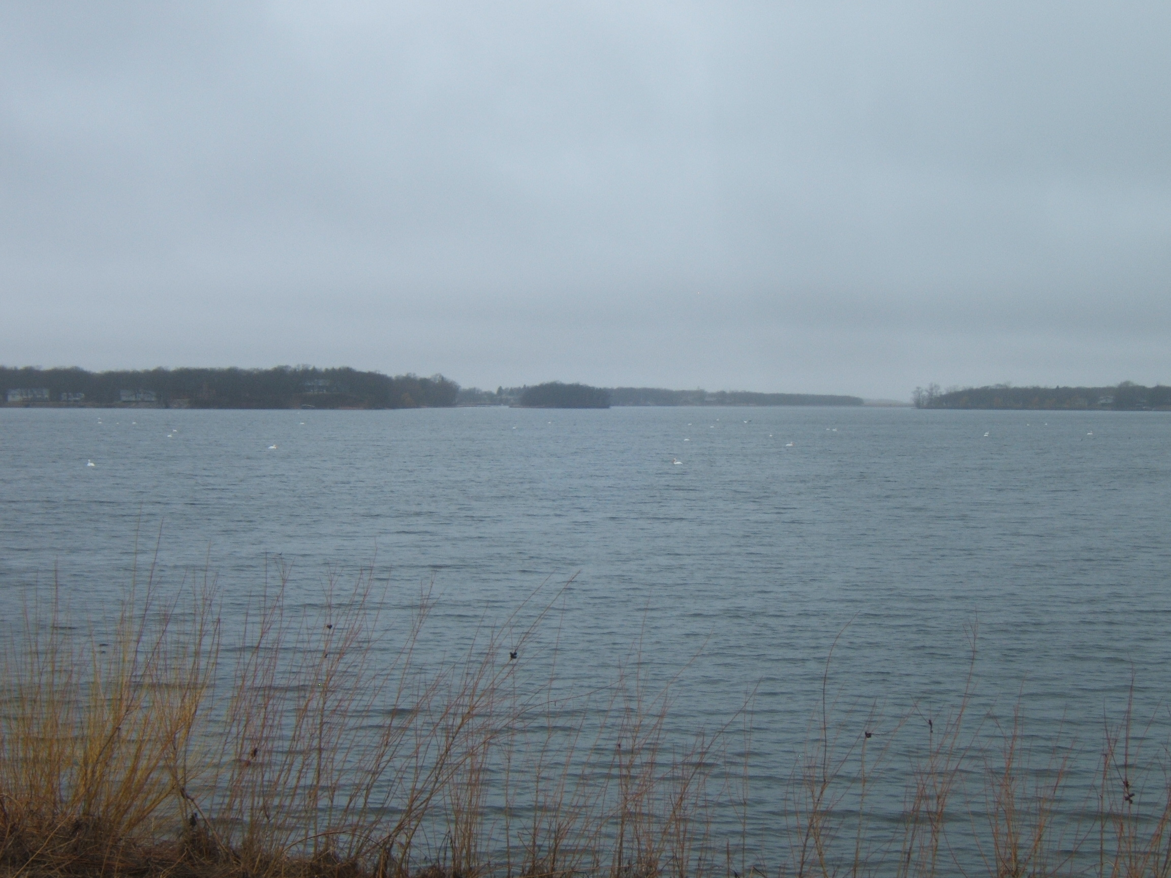 Killarney Lake, located in the Town of Killarney, Manitoba, Canada. Taken May 7th, 2014.